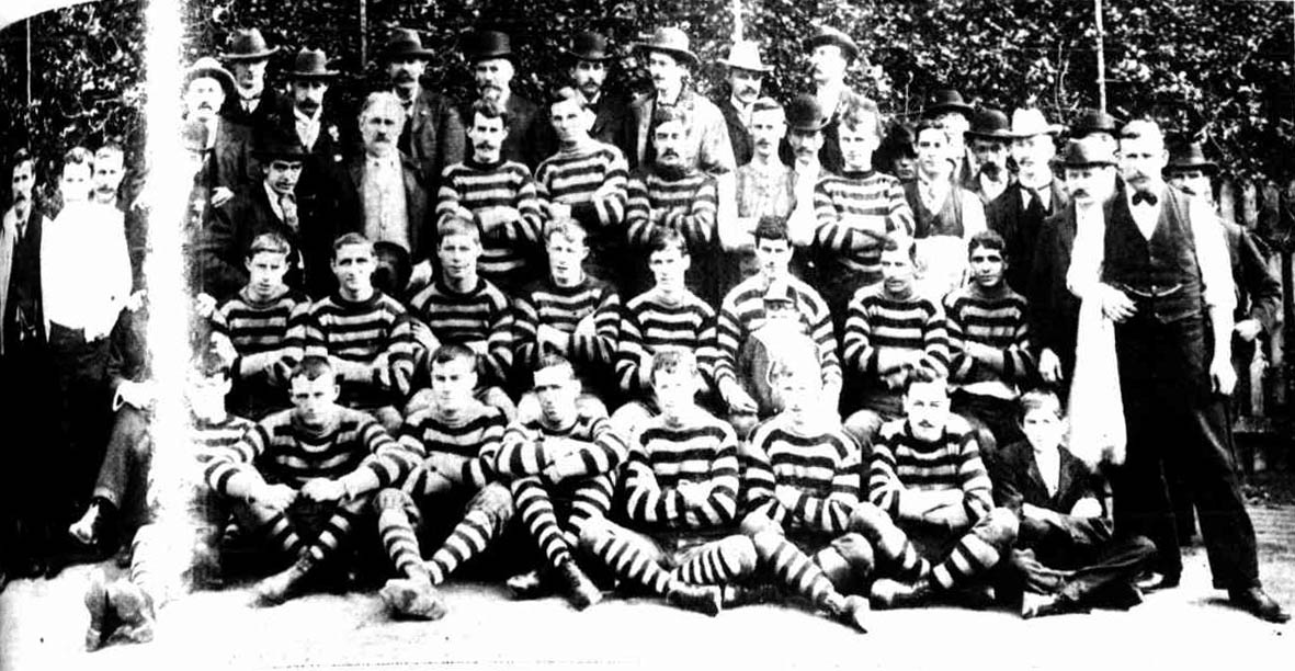 Team of Port Melbourne FC, premiers